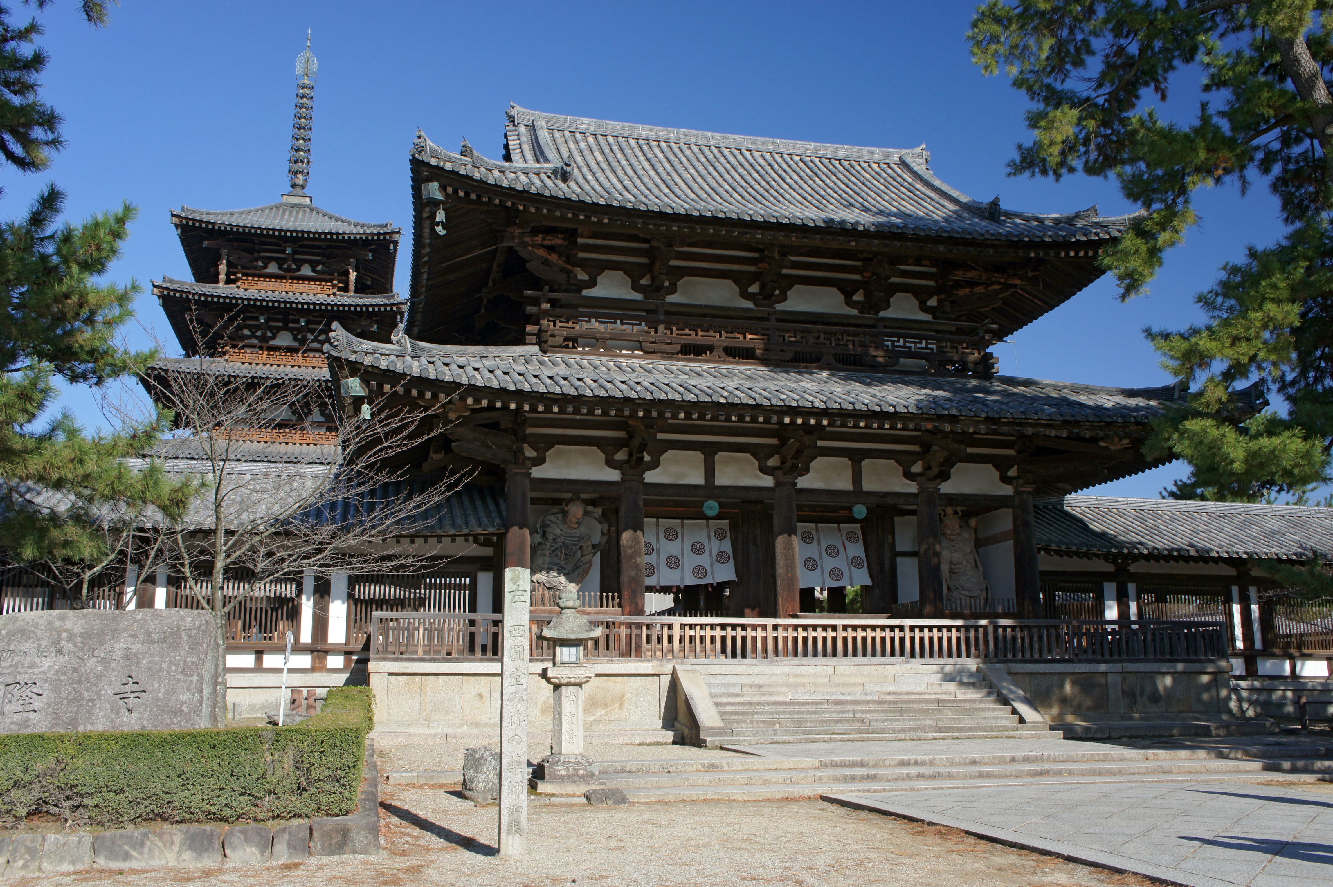 Inner Gate of Hōryū-ji is a Japan's National Treasure. Hōryū-ji is a Buddhist temple in Ikaruga, Nara prefecture, Japan. It was registered as part of the UNESCO World Heritage Site "Buddhist Monuments in the Hōryū-ji Area".